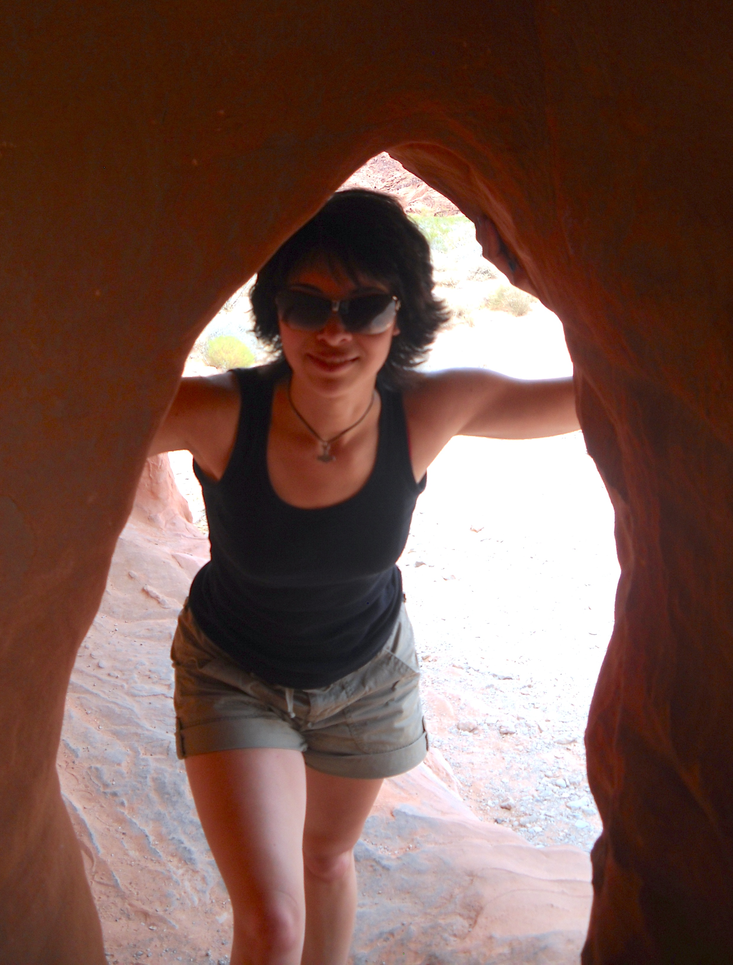 Sharon Hill at the Valley of Fire state park, Nevada. July 2010